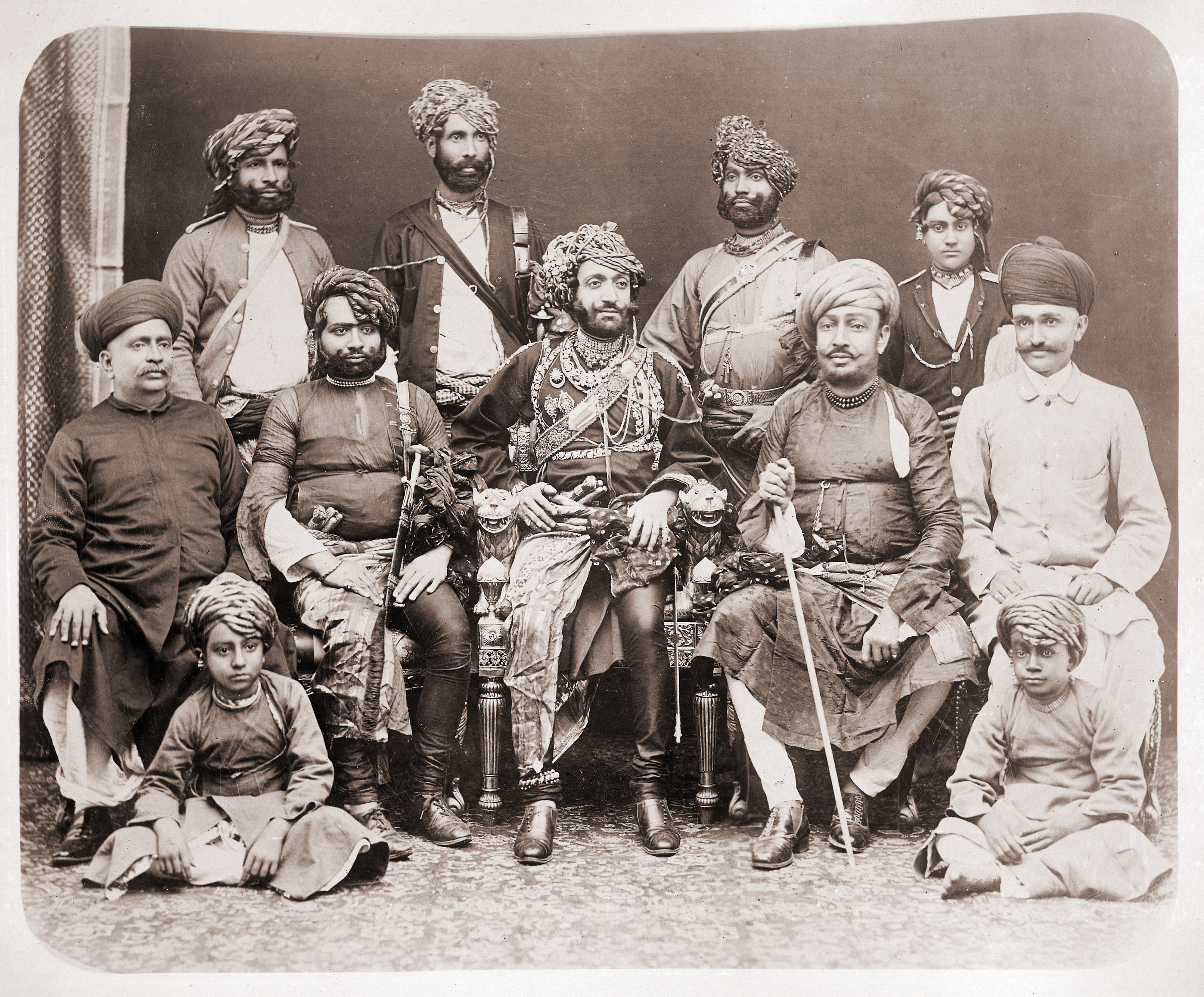 Bahadur Khanji III (r.1882-1892), Nawab of Junagadh, and state officials, 1880s."“Mr Haridas Viharidas, late Diwan; HH Bahadur Khanji, GCIE, late Nawab Sahib; Bahauddin bhai, CIE, Vazier Sahib [and] Mr Purusholtumrai S. Zala, Naib Diwan”.